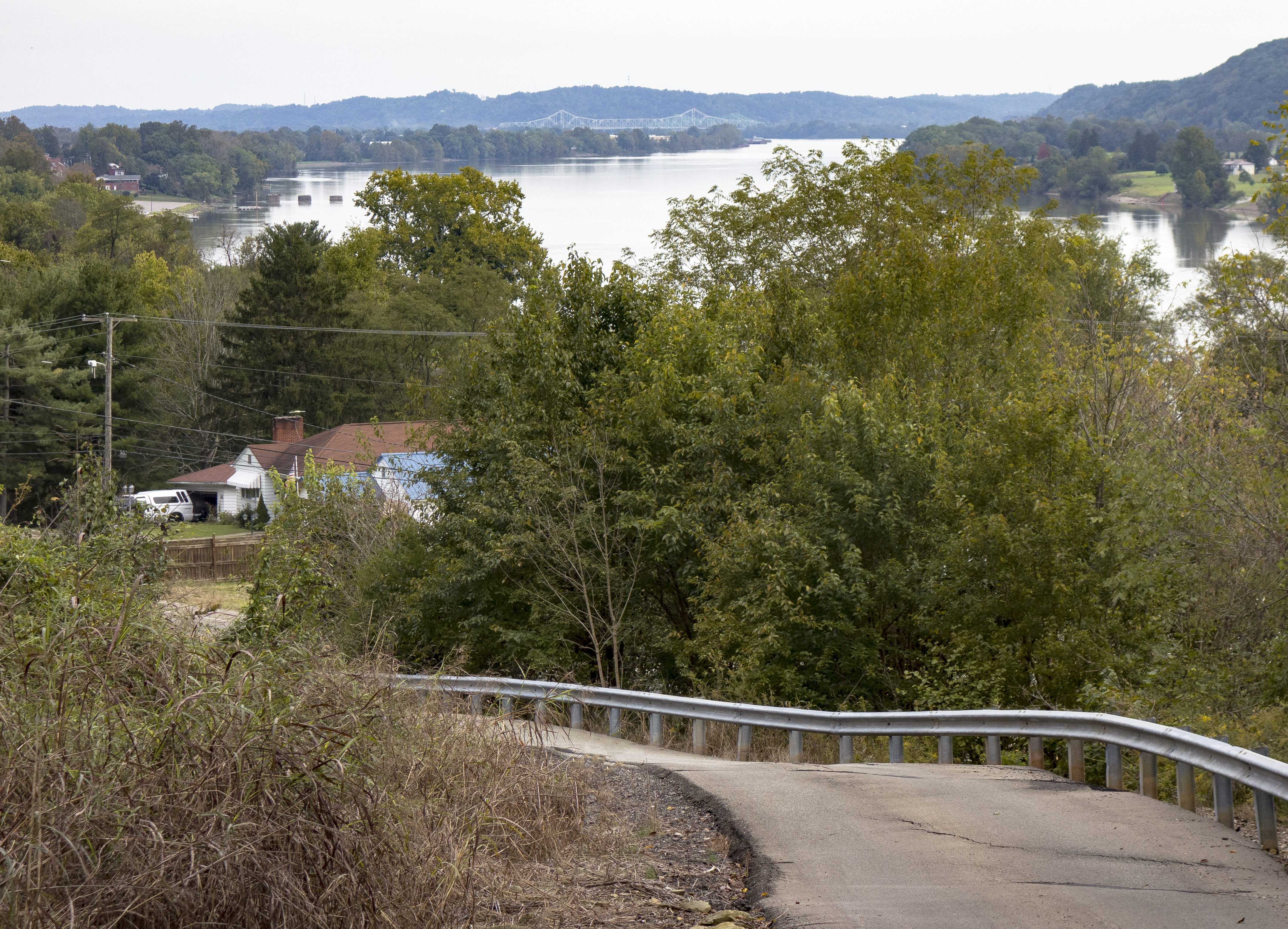 View from a hilly road in Gallipolis looking up the Ohio River towards the Silver Memorial Bridge separating Ohio and West Virginia across the river.